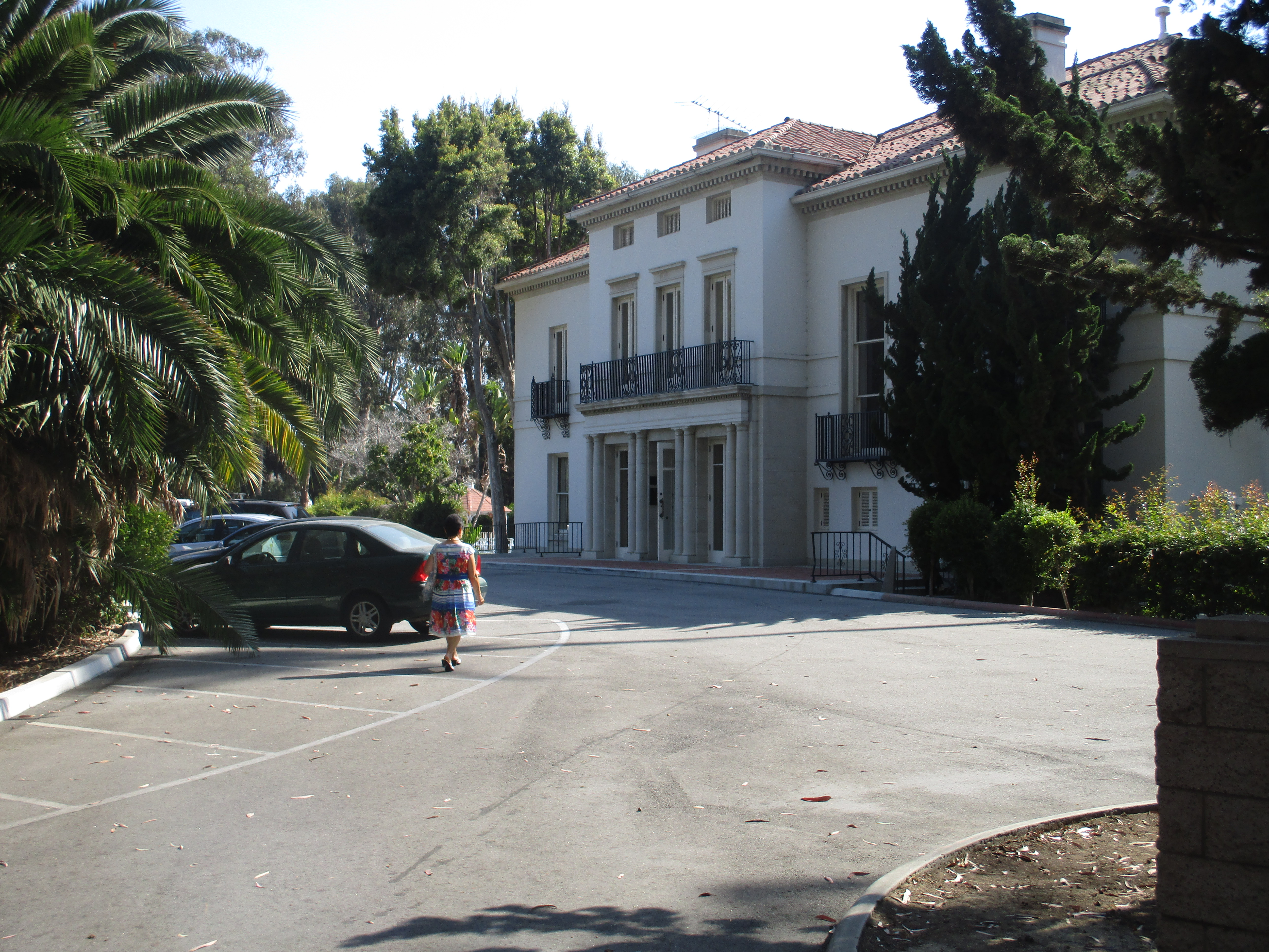 View from NE of Front of Bard Mansion at Berylwood